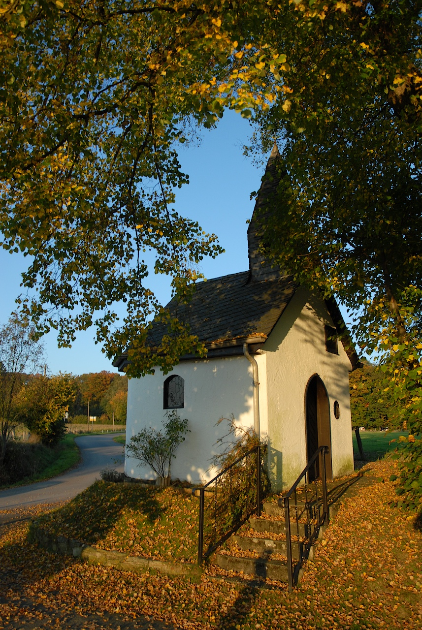 Chapel in the village Beiert (Ruppichteroth, Germany)